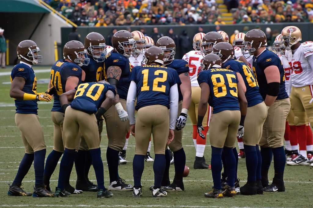 Green Bay Packers